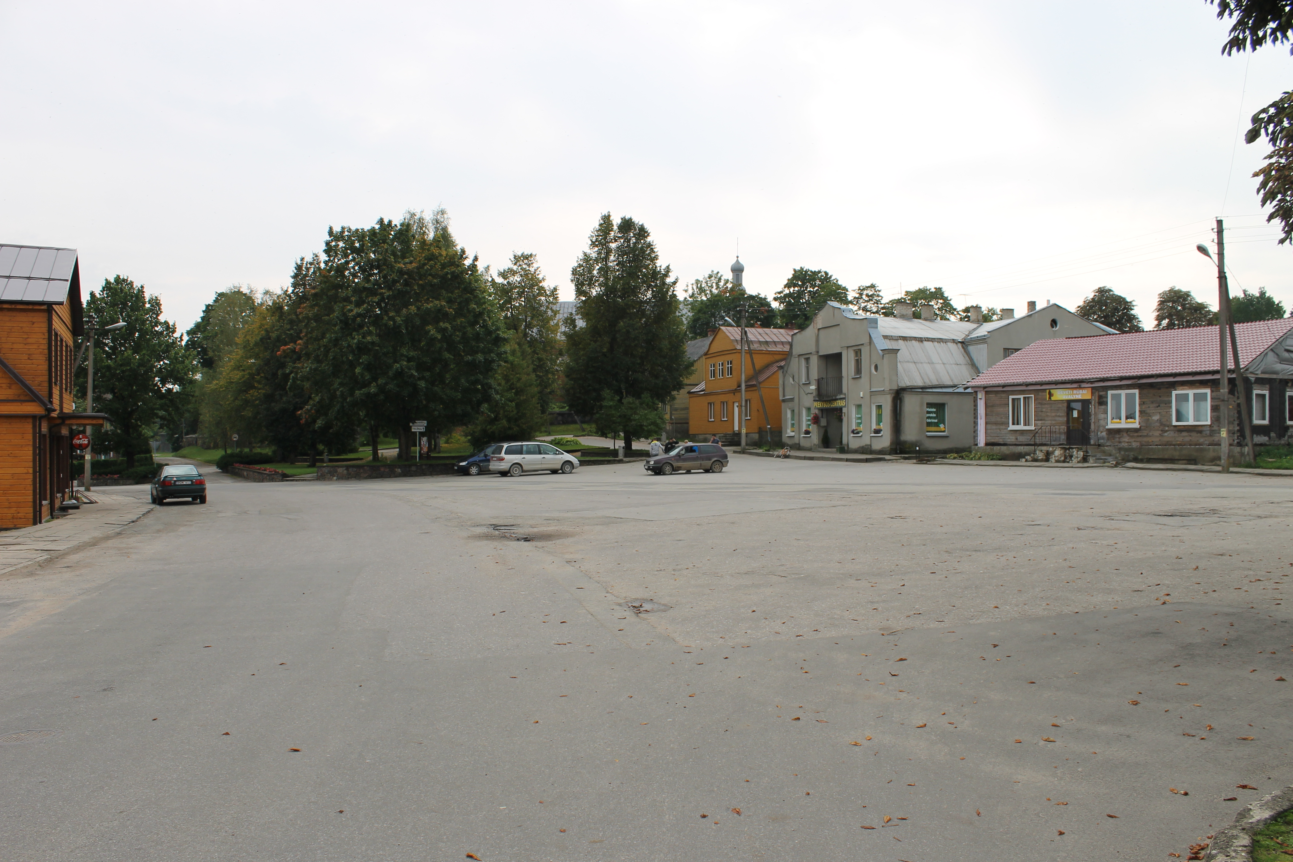 Alsėdžiai, Plungė district, LithuaniaLietuvių: Alsėdžių turgavietė, Plungės rajonas, Lietuva